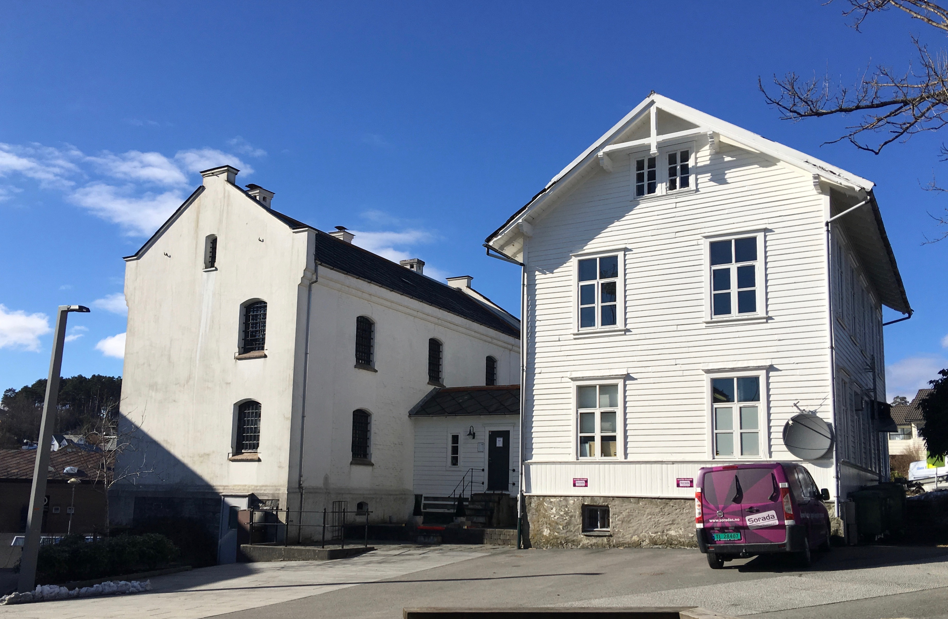 Fengselet ("The Prison") and restaurant in Jens Hystadvegen, Leirvik, Stord, Norway. 2018-03-13